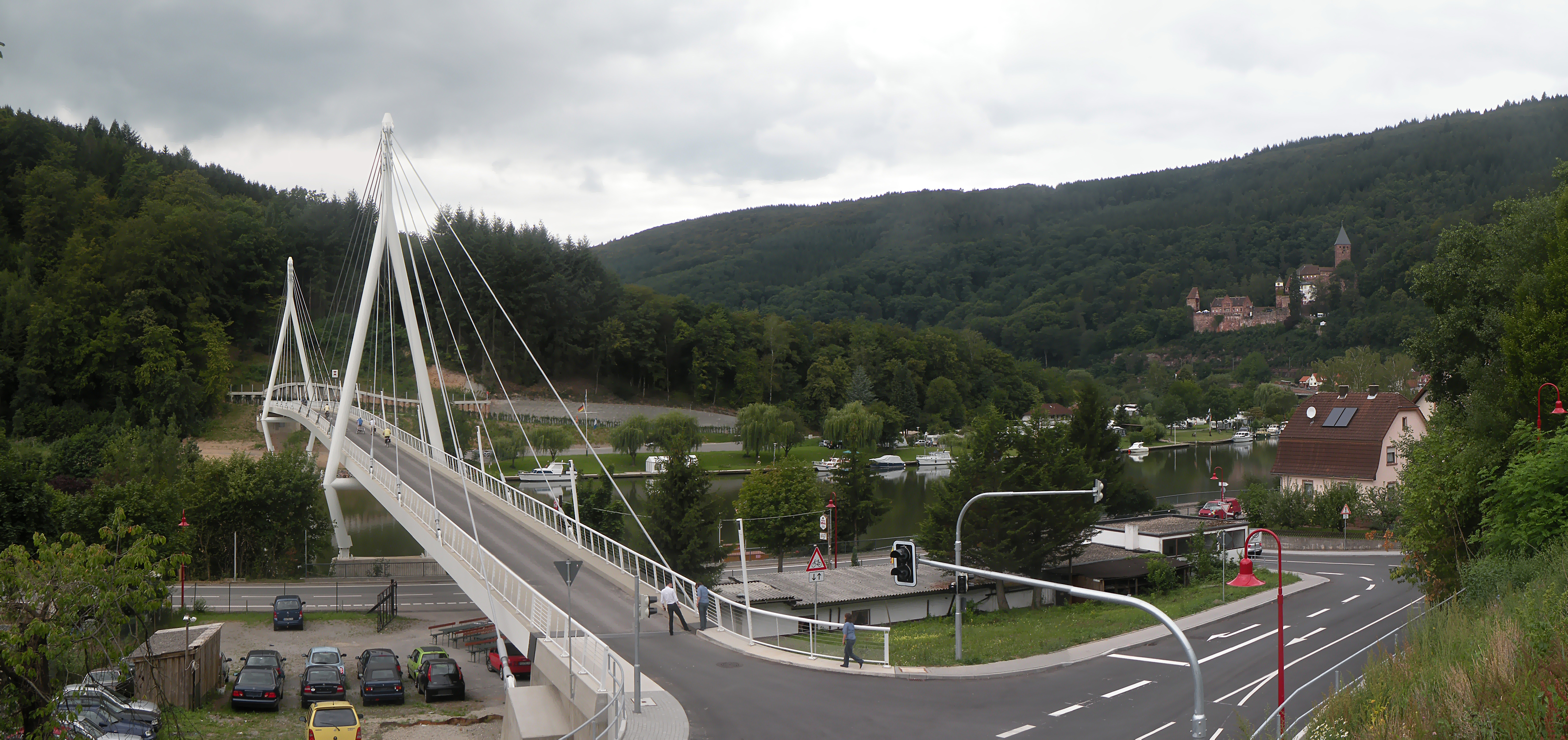 Bridge over the Neckar in Zwingenberg, completed in 2009, replaced the old ferry crossing on the Neckartalradweg bicycle trail.